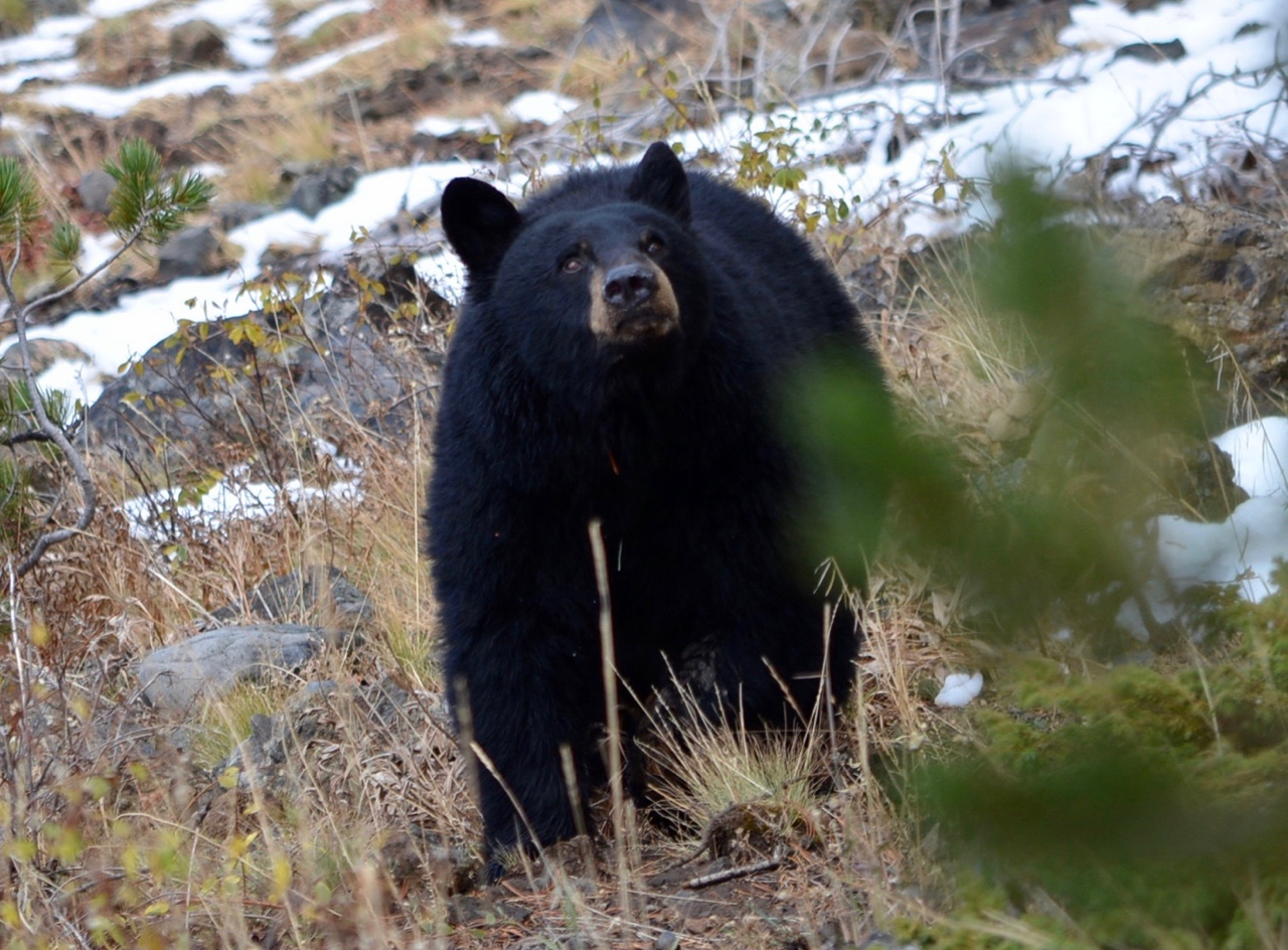 A Montana Black Bear up close.